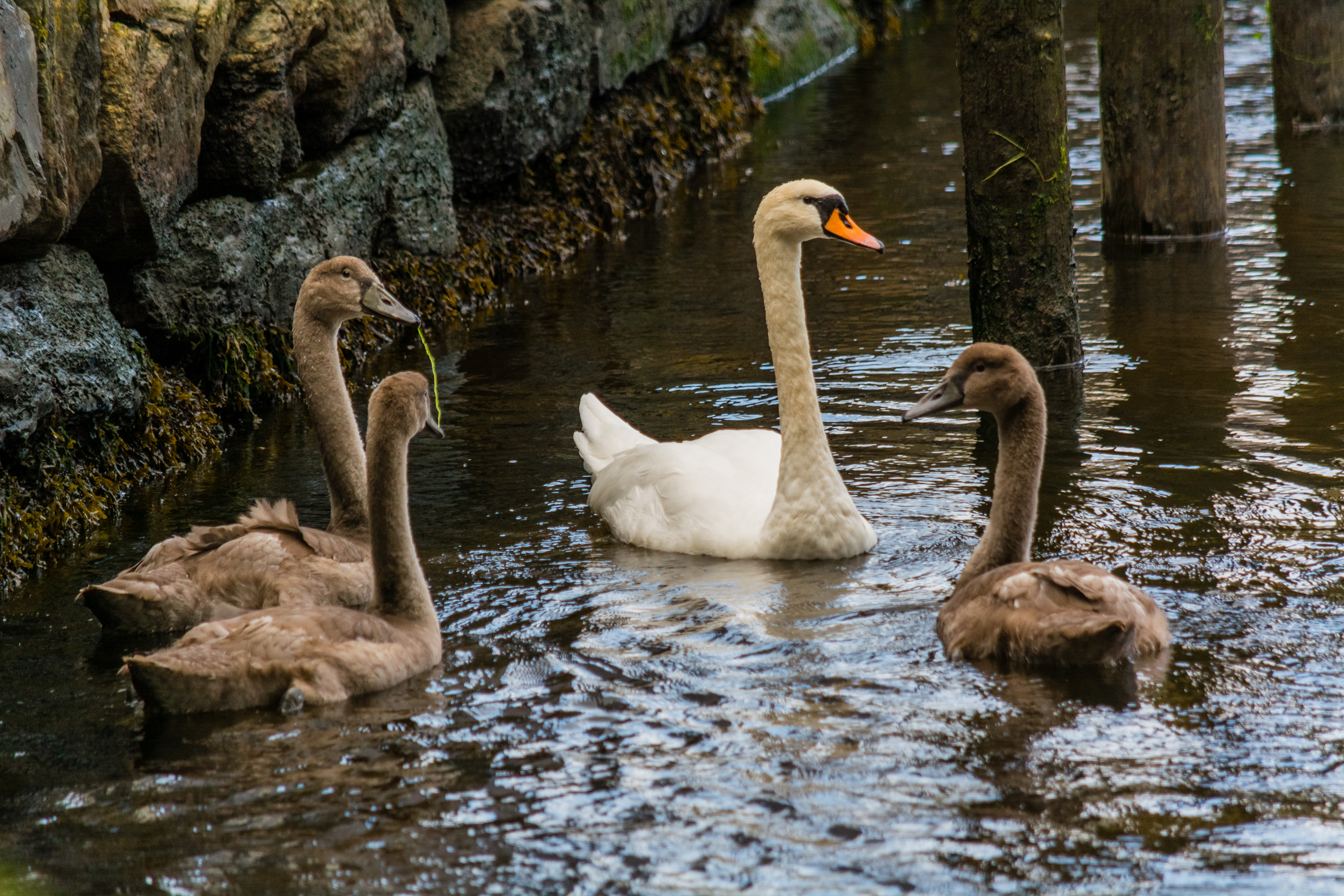 The widow and offspring of the mute swan "The Harbour-Master" five days after his death.